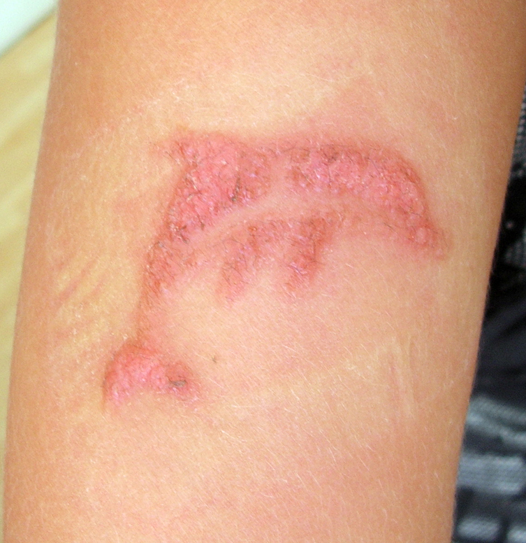 Dermatitis due to a temporary tattoo (dolphin) made with black henna.